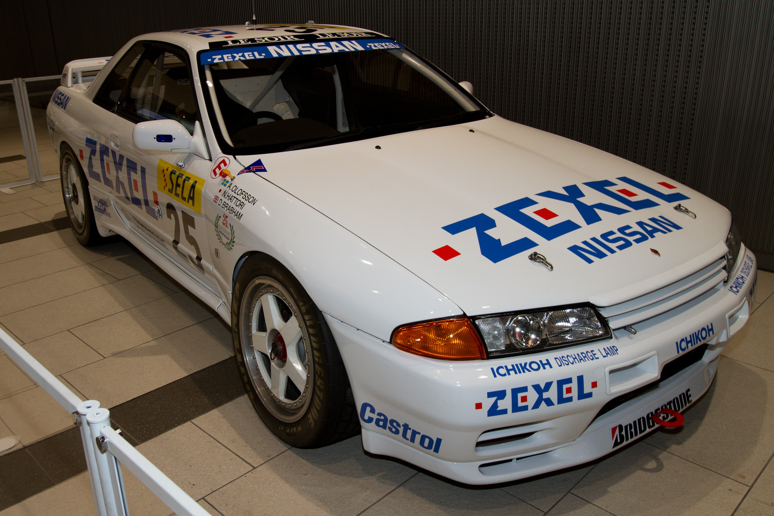 1991 Nissan Skyline GT-R (BNR32) Group N; 1991 24 Hours of Spa winner (replica)